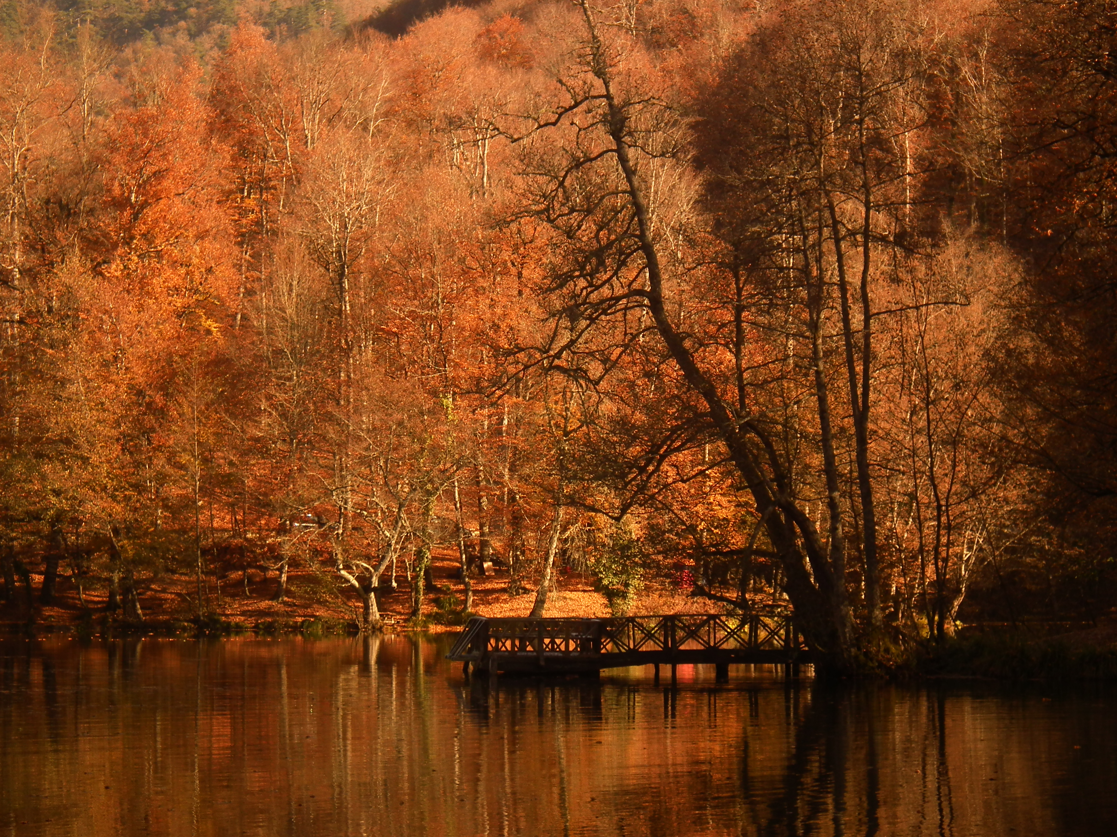 Bolu, Yedigoller National Park